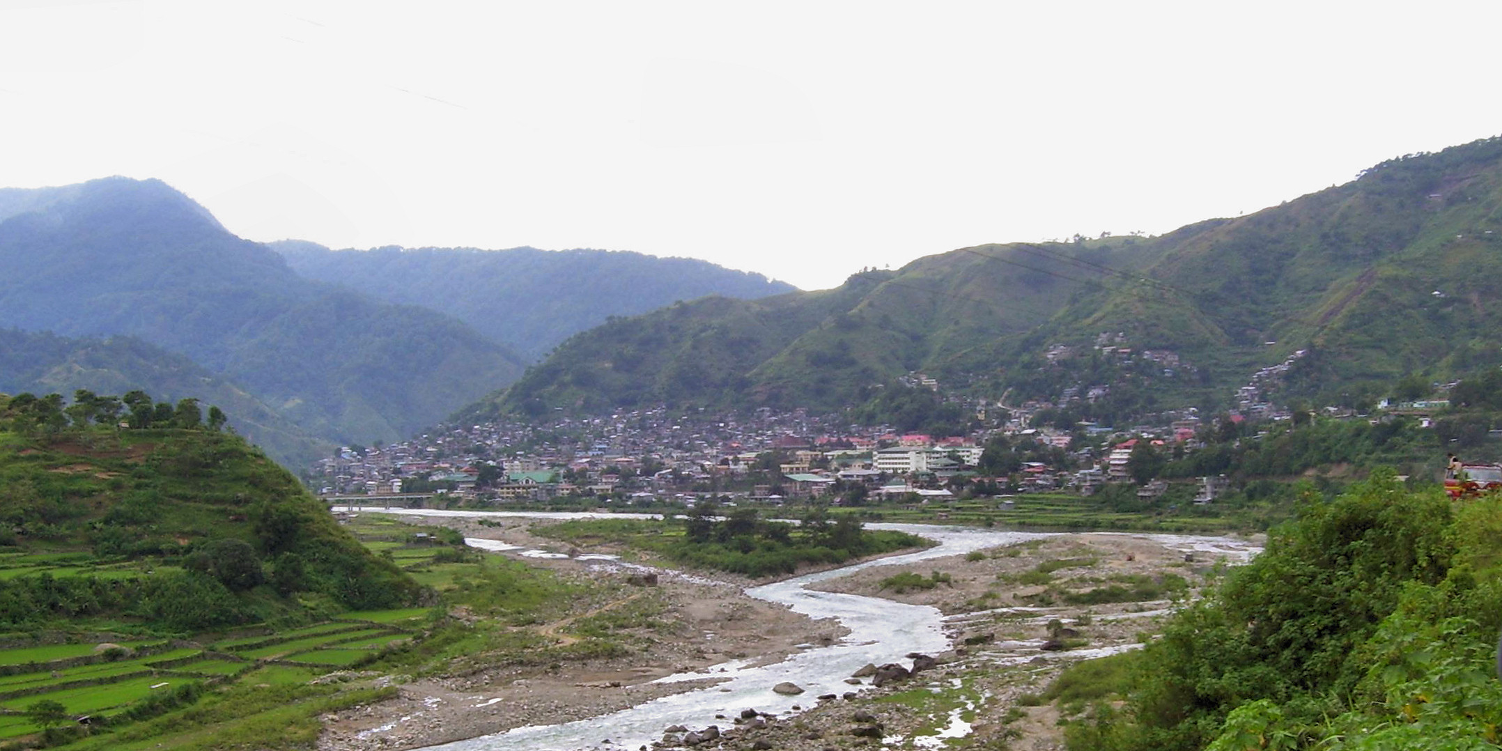 Bontoc, capital of Mountain Province, the Philippines, October 2007.